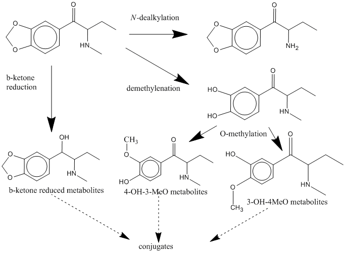 A brief description of the metabolism of Butylone